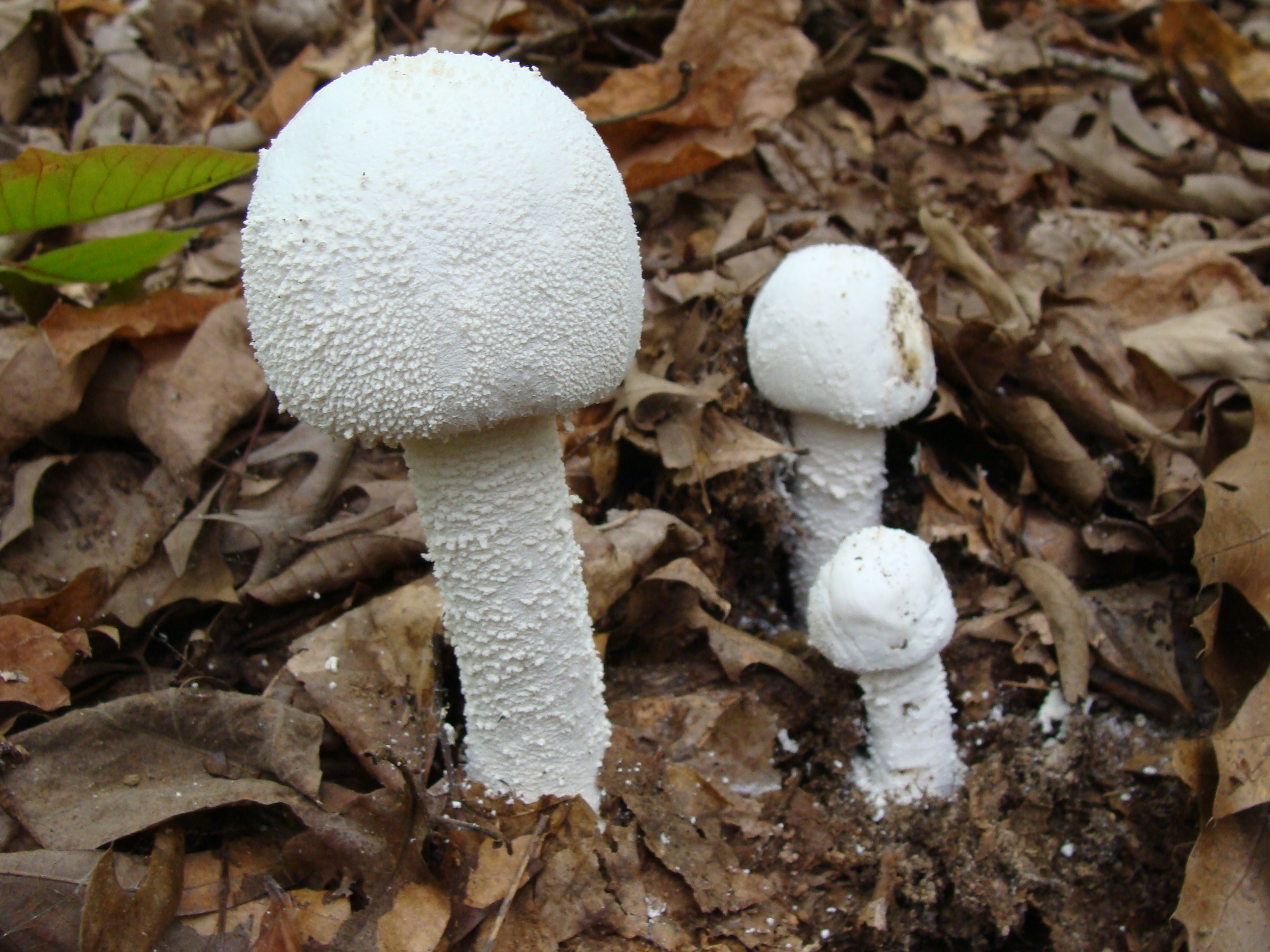 Amanita polypyramis (Berk. & Curt.) Sacc. Location: Mingo Wildlife Refuge, near Puxico, Missouri, USA For more information about this, see the observation page at Mushroom Observer.